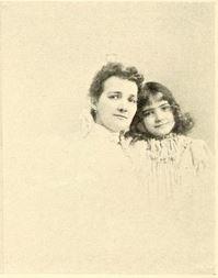 Ida M. Lowry